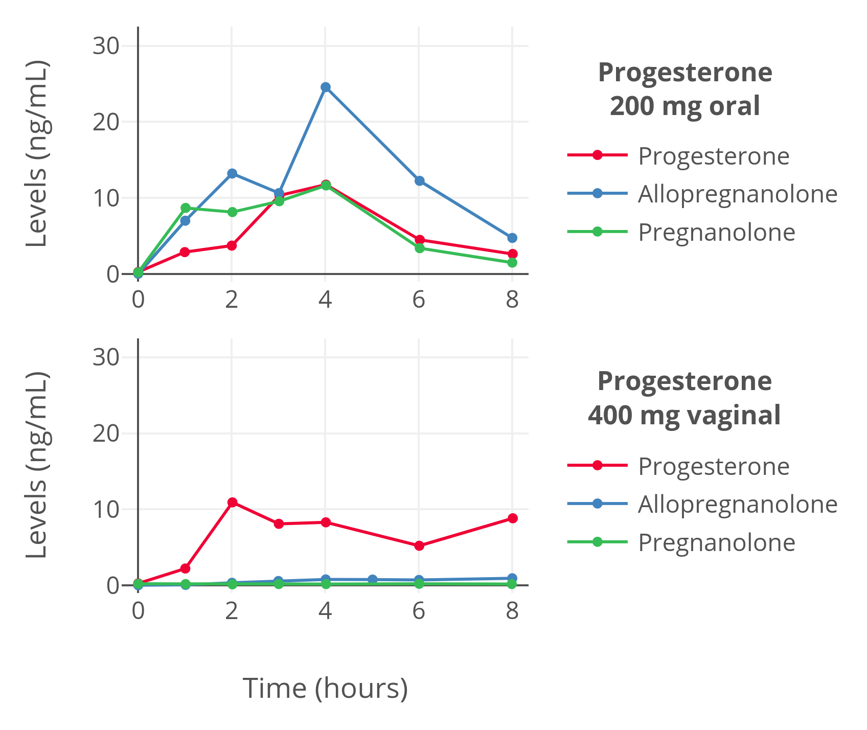 Levels of progesterone, allopregnanolone, and pregnanolone in nine premenopausal women following a single dose of 200 mg oral micronized progesterone or 400 mg vaginal (suppository) progesterone. Source of the values: (April 1995). "Influence of route of administration on progesterone metabolism". Maturitas 21 (3): 251–7. PMID 7616875.